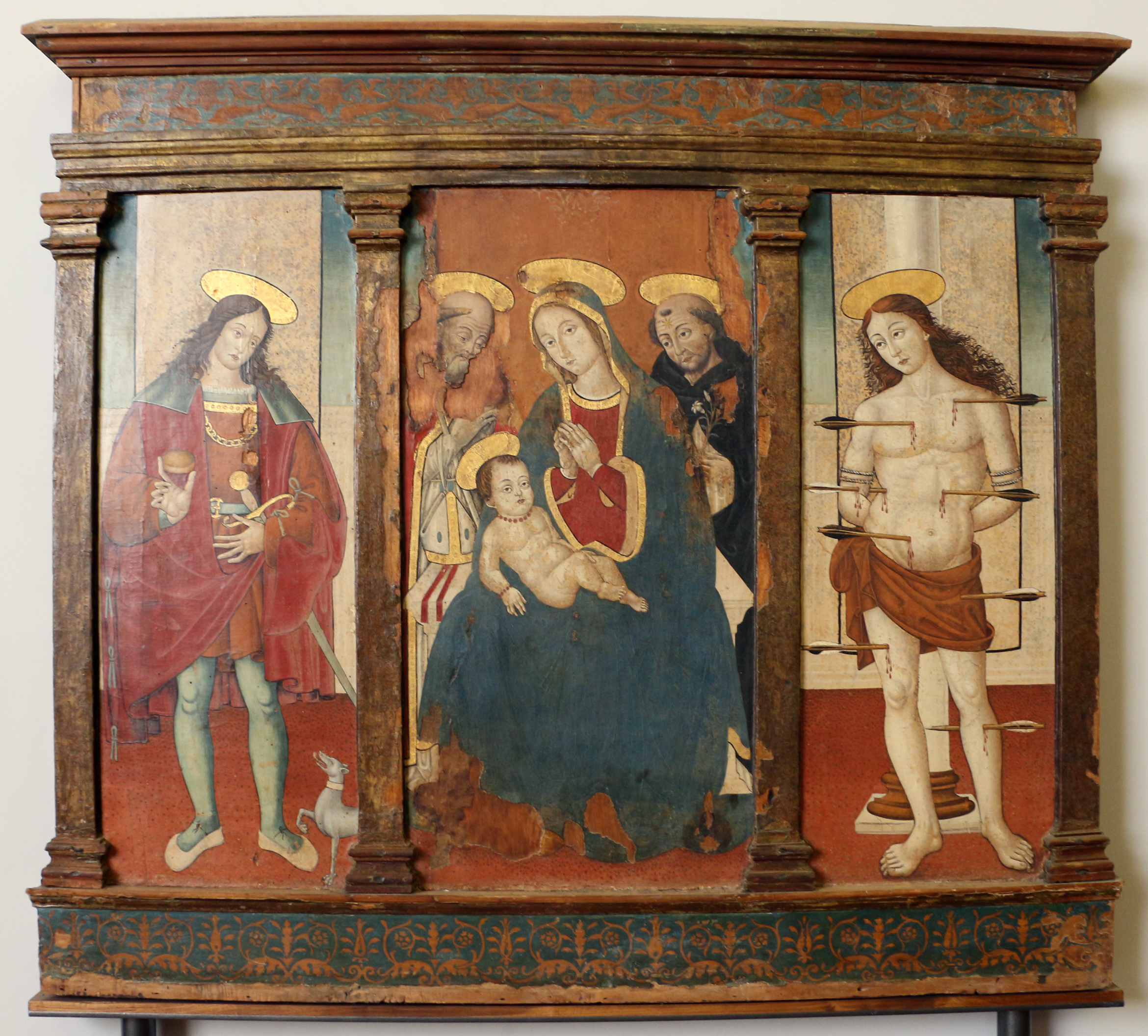 Paintings in the Museo Civico (Gubbio)